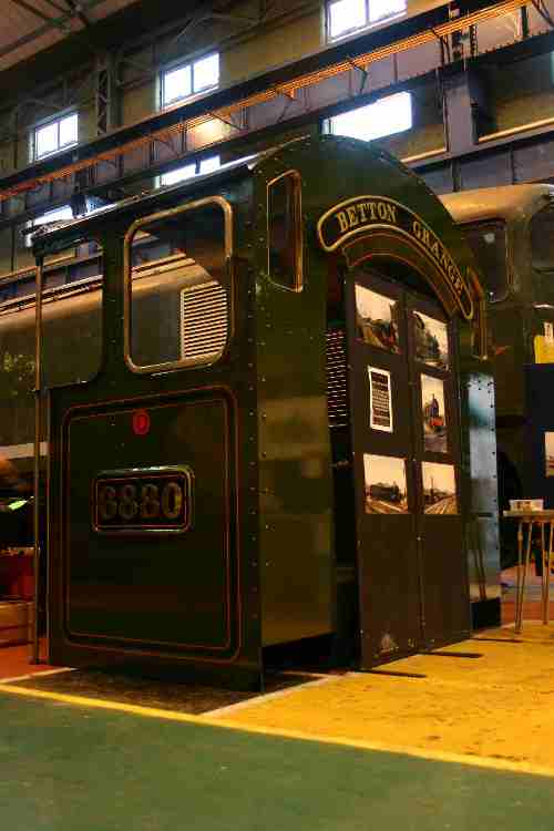 Photo taken by Craig Tiley